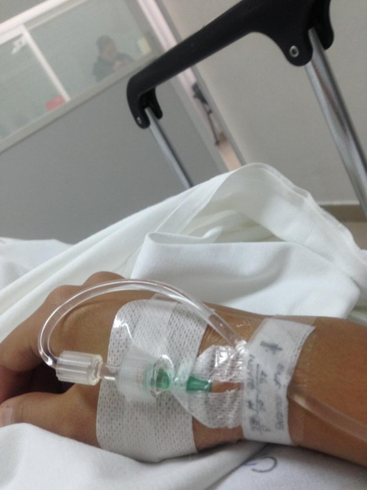 A pacient receiving blood after a high-risk surgery